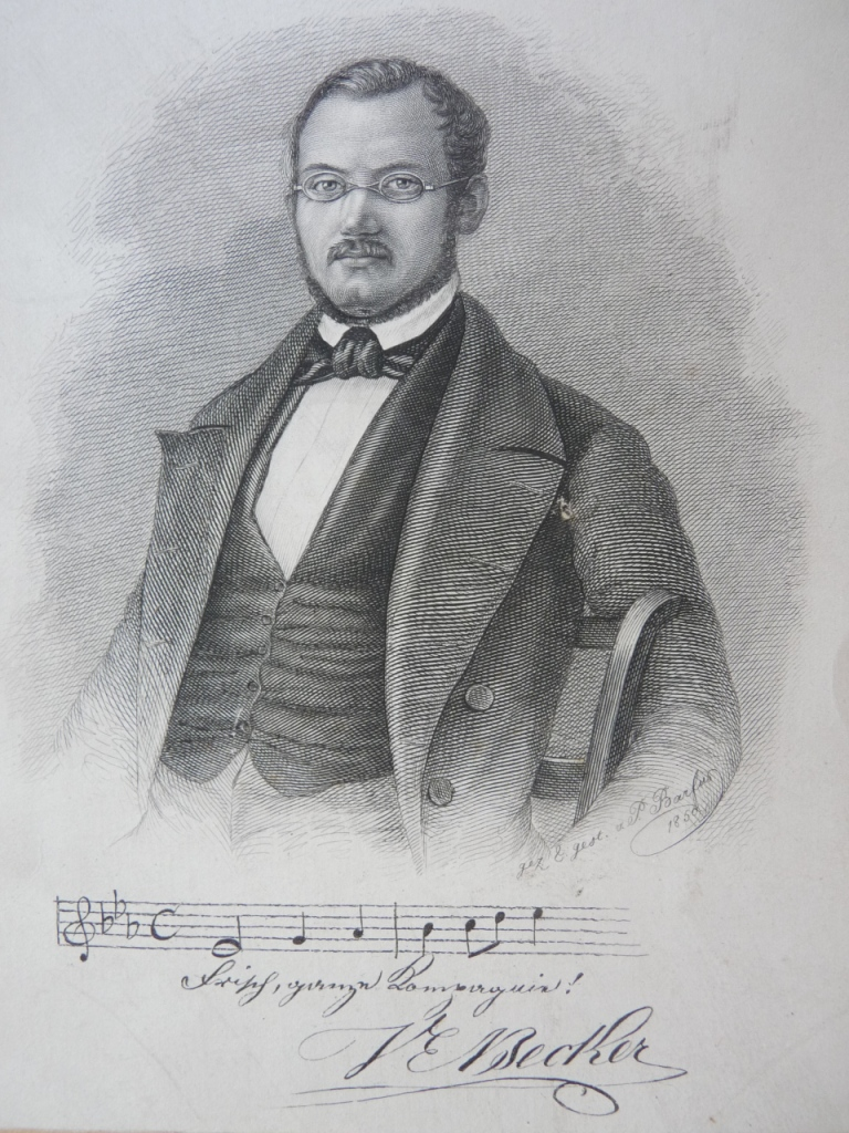 Depicted person: Valentin Eduard Becker